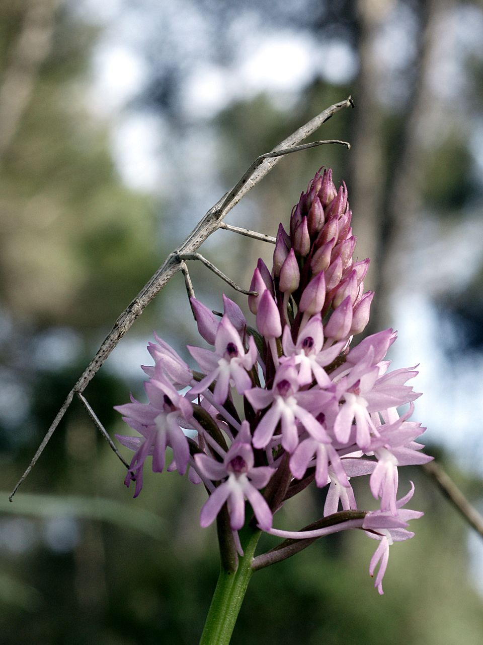 Anacamptis pyramidalis - flowers